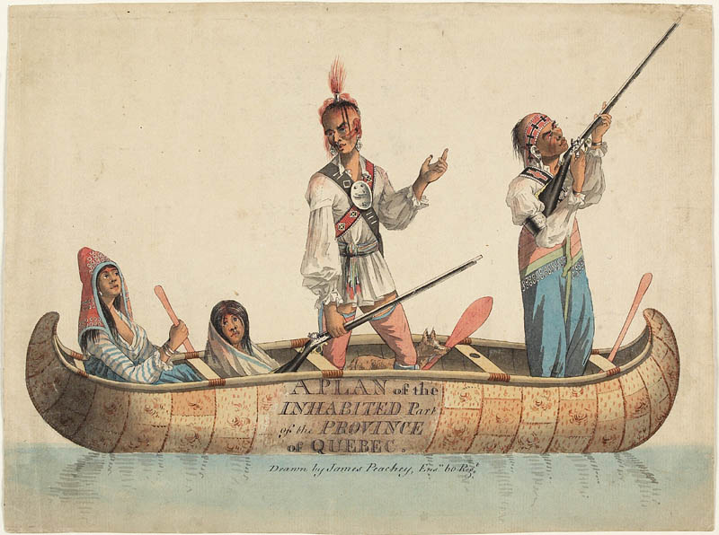 James Peachey. Peter Winkworth Collection. Library and Archives Canada, e000756679